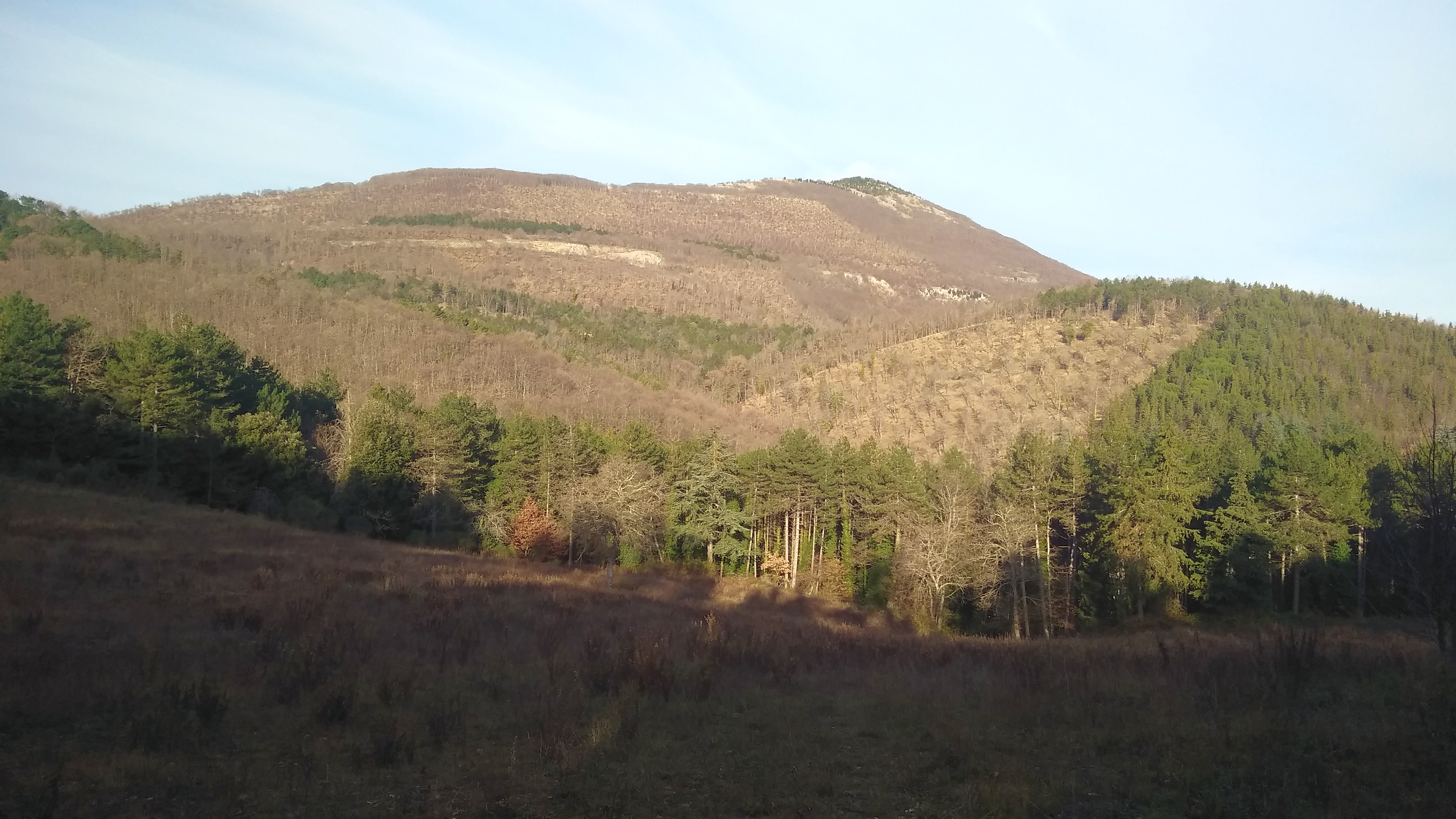 Monte Cetona (Tuscany, Italy): E slopes facing the Val di Chiana